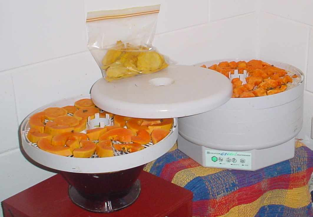 Electrical food dehydrator consist of a hot air generating unit that blows hot air through trays that contain items being hehydrated. This model has stackable plastic trays and adjustable drying temperature for different types of foods. In the picture mango and papaya slices are being dried. Dried slices can be stored in a plastic bag in room temperature.